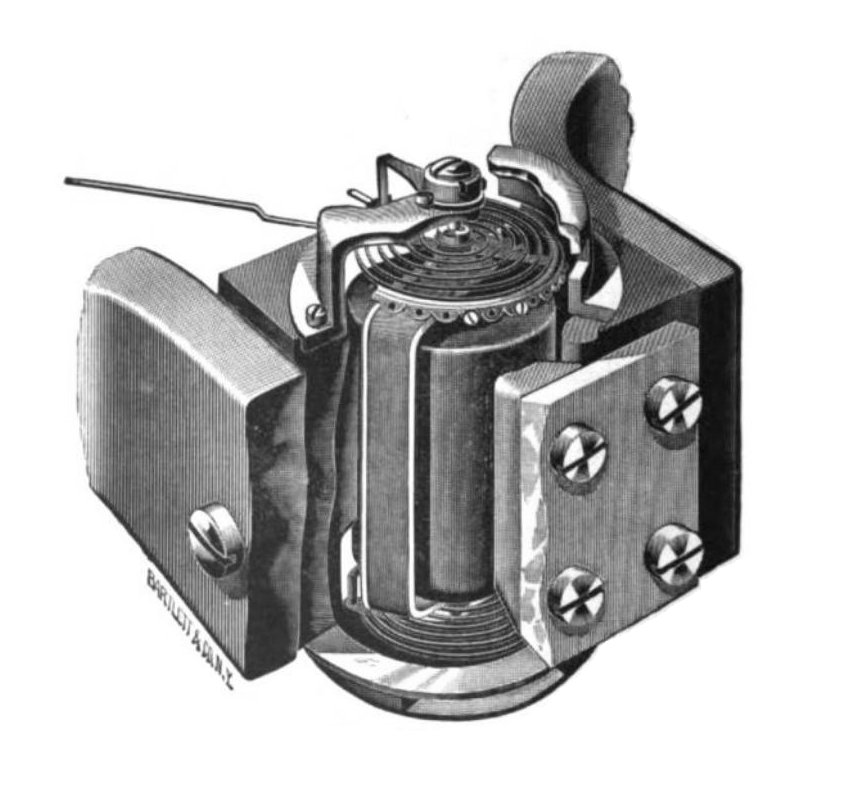 Drawing of D'Arsonval Galvanometer (ammeter) movement, of Weston type, from around 1900. This is the mechanism used in most moving-pointer (galvanometer) meters today. Only the pole pieces of the horseshoe-shaped magnet are shown, and part of the left-hand pole piece is broken out by the artist to show the coil. It consists of a light coil of wire with an attached pointer, suspended on jewel bearings between the poles of a magnet, with a spiral hairspring to return it to zero. When a current is passed through the coil, it creates a magnetic field that opposes the magnet's field, creating a torque that rotates the coil against the restoring force of the spring. The coil turns through an angle until the restoring force of the spring is equal to the force of the coil. Since the angle of deflection is proportional to the force, which is proportional to the current, the deflection is proportional to the current. The screwdriver slot at the top of the axis is for adjusting the meter to zero. Alterations: removed caption, and faint background discoloration.